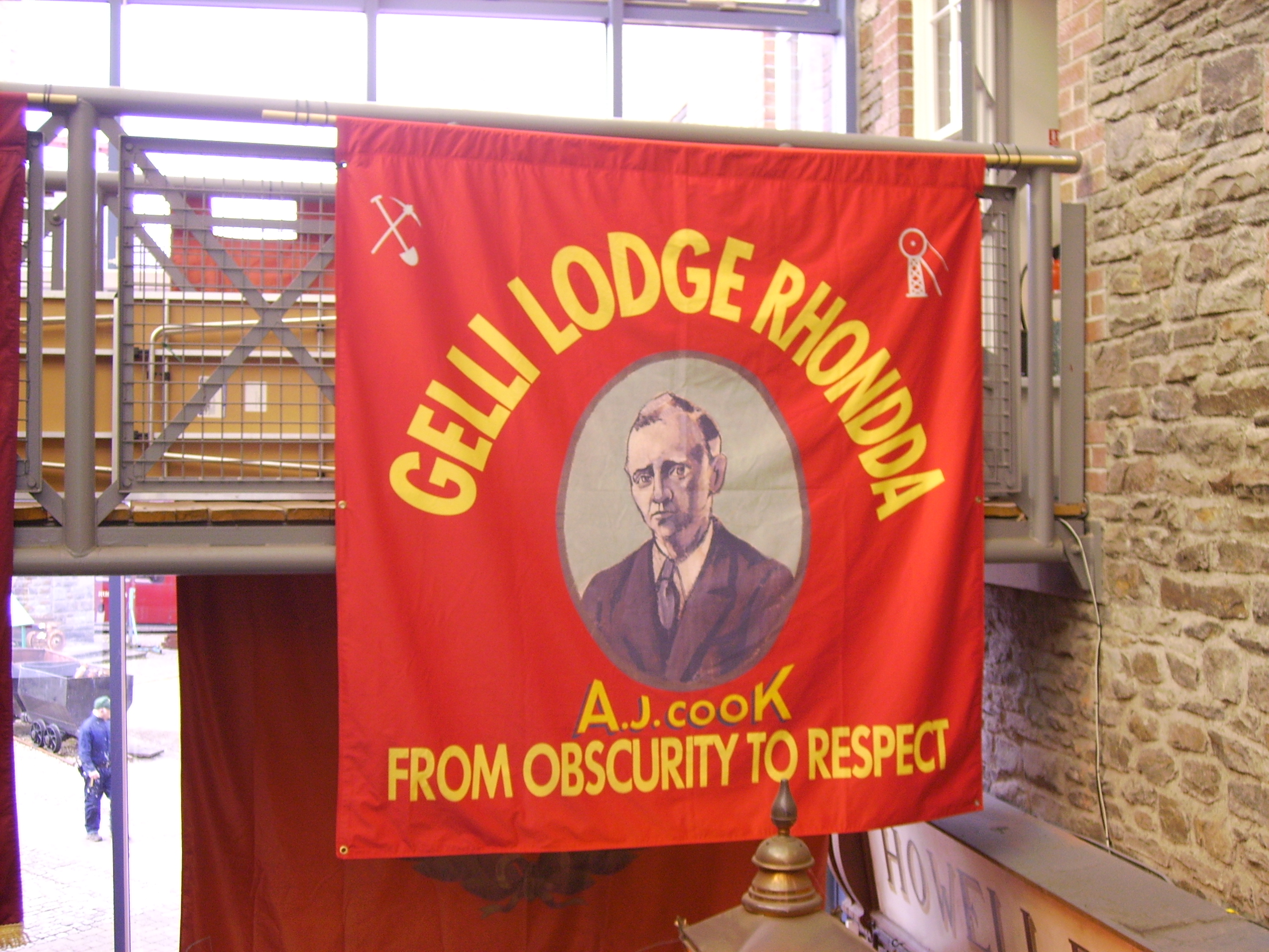 Lodge banner of trade unionist AJ Cook held at the Rhondda Heritage Park